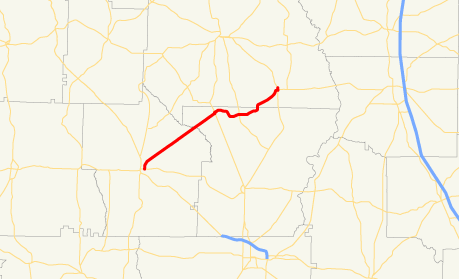 Map of Georgia State Route 118